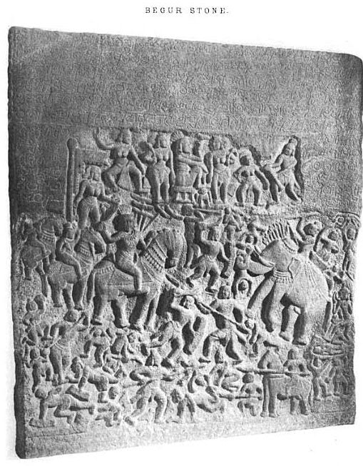 Begur is a town near the modern Bangalore city in the Karnataka state, India. The inscription is partly a hero stone (virgal) which refers itself to the rule of Western Ganga dynasty king Ereyappa and to the period between 908 and 938 AD. It records the death of a hero in battle at Tumbepadi. The inscription is in the old Kannada script and language. Ref source: Epigraphia Indica and Record of the Archæological Survey of India, Volume 6, pp.45-48